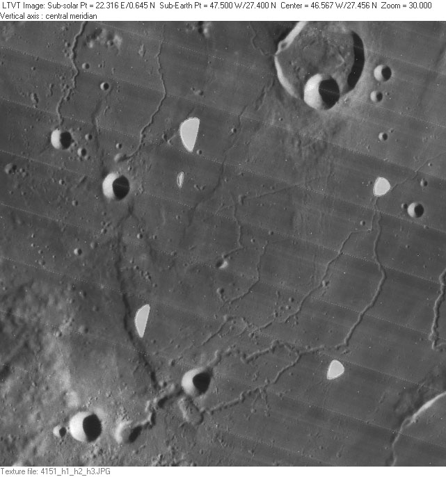 Rupes Toscanelli